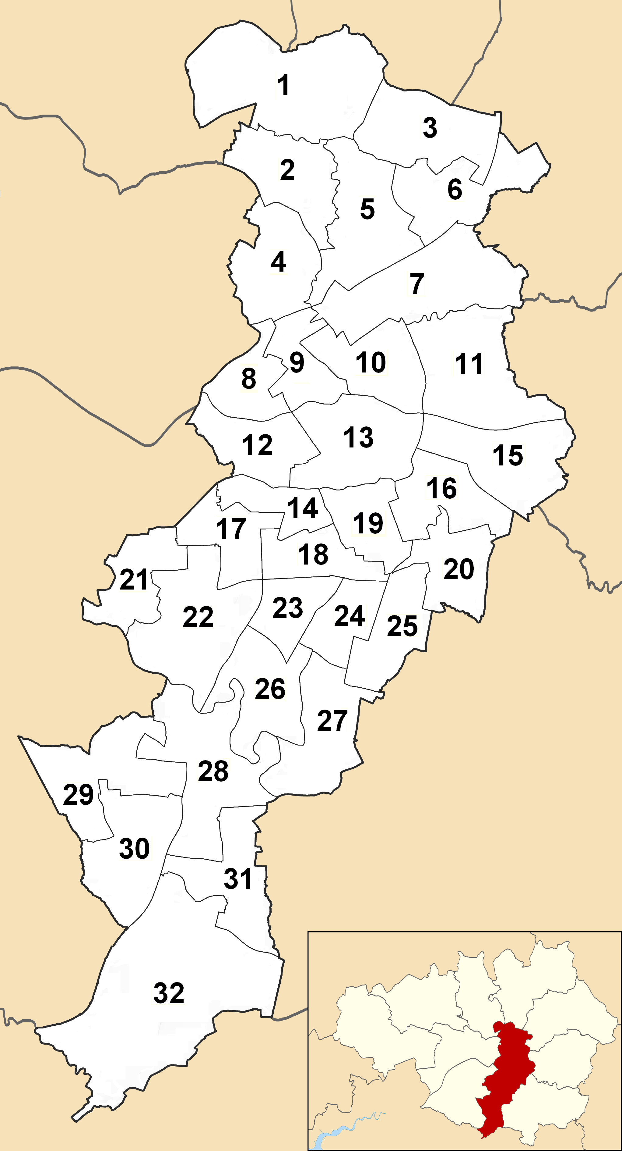 Map of Manchester City Council, Greater Manchester, UK with electoral wards numbered.